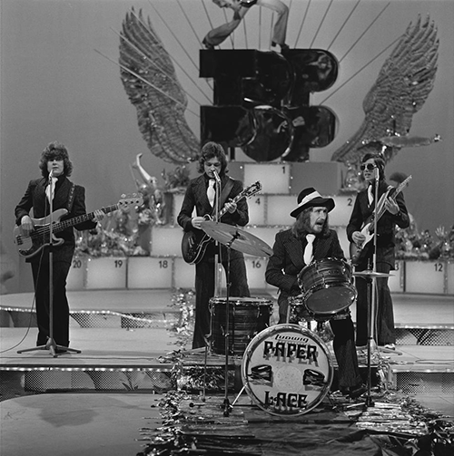 Paper Lace in AVRO's TopPop (Dutch television show) in 1974